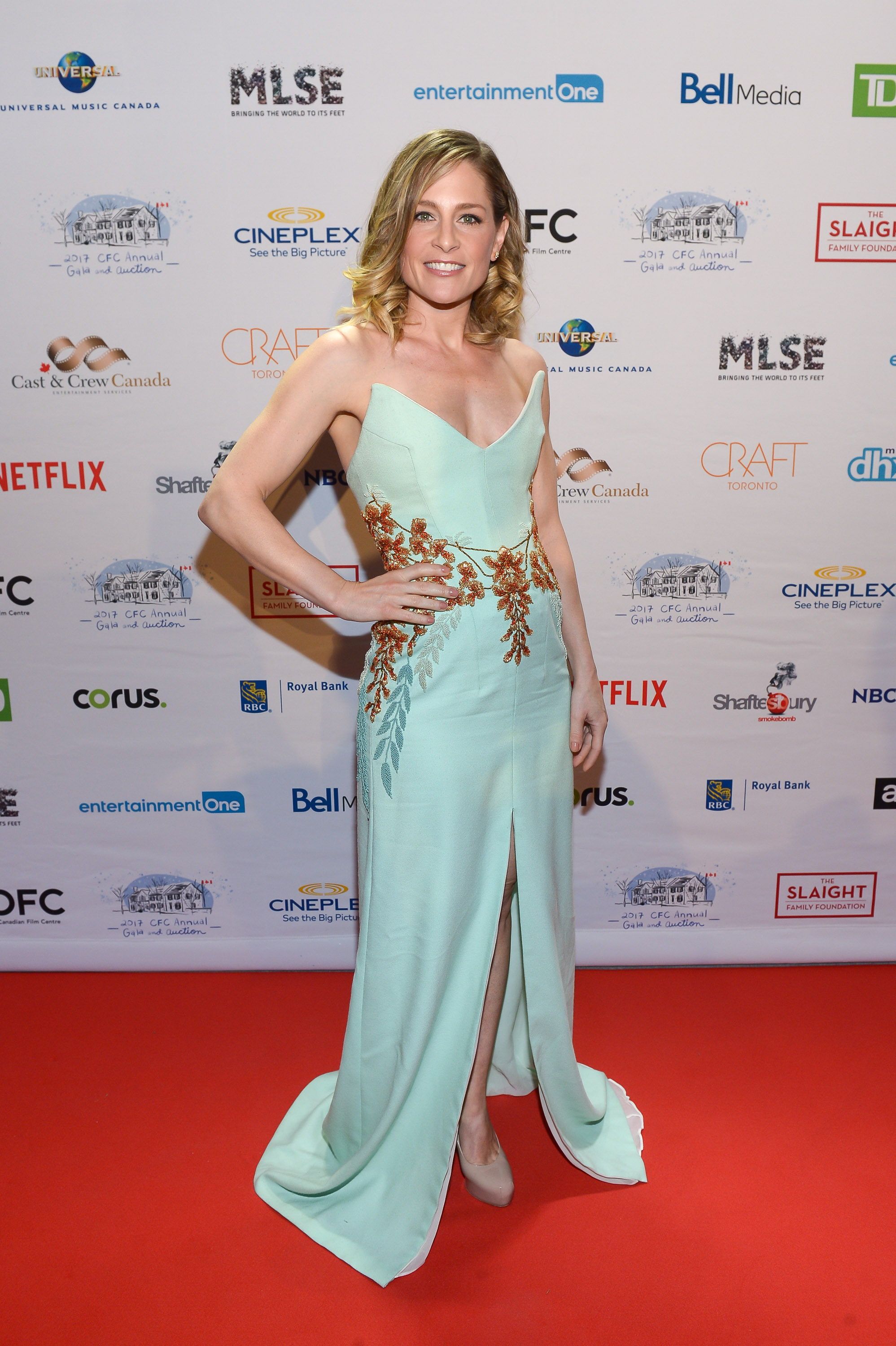 Tara Spencer-Nairn